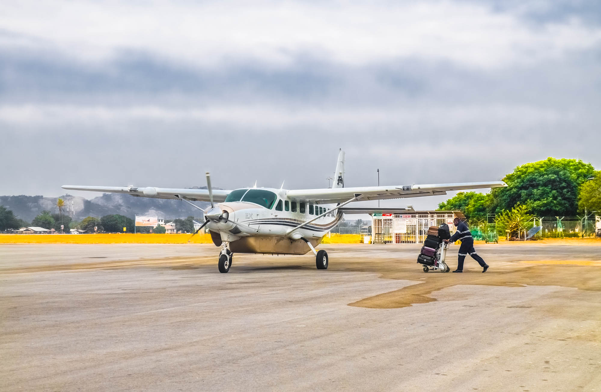 The present airport serving the capital is located within the municipality and cannot accommodate larger aircraft. Therefore, the government intends to construct a new international airport at Msalato ward. This is an image with the theme "Africa on the Move or Transport" from: Tanzania